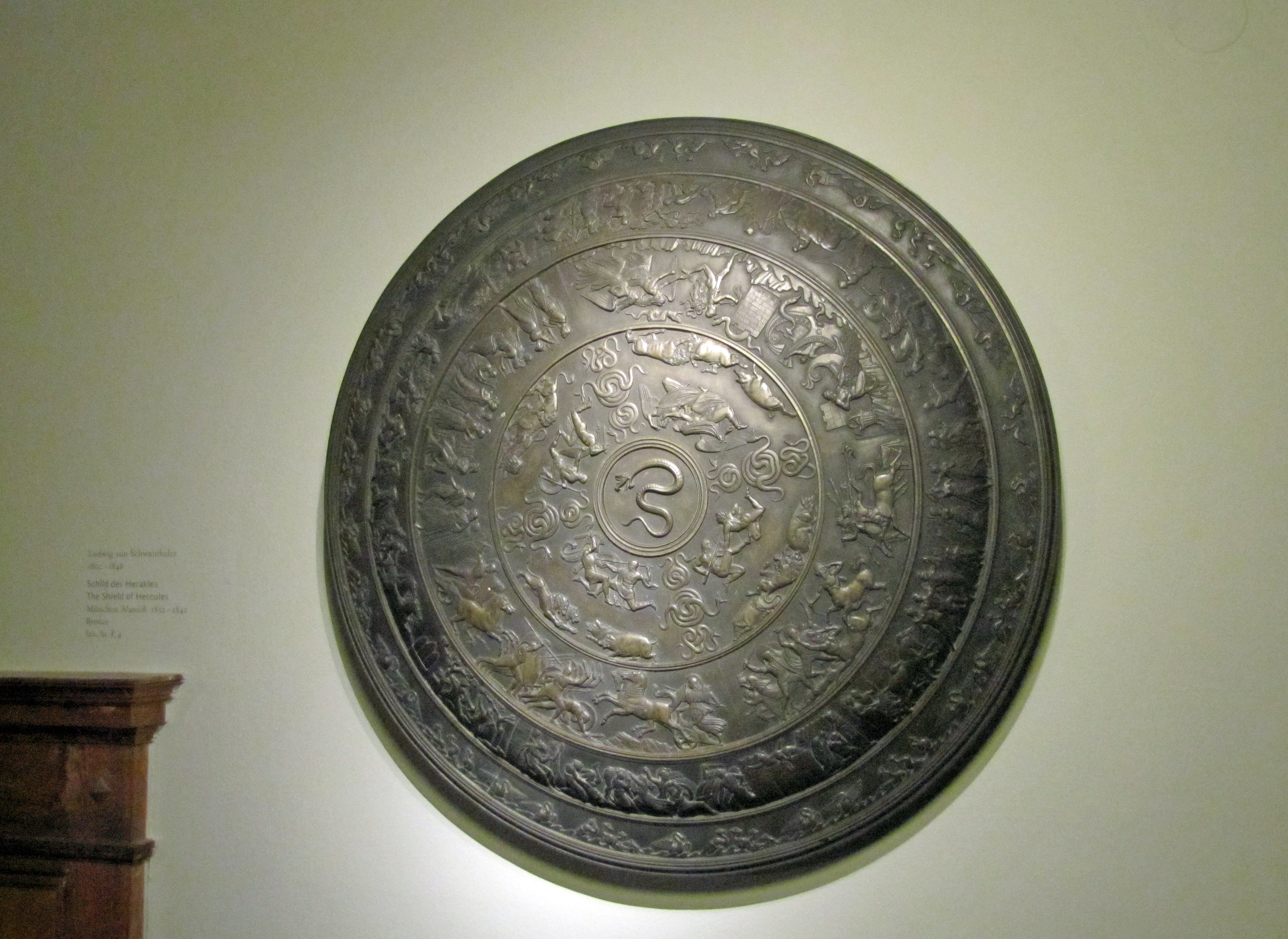 "The shield of Hercules", Munich 1832-1842, bronze, Ludwig von Schwanthaler (1802-1848), Liebieghaus in Frankfurt am Main, Germany.